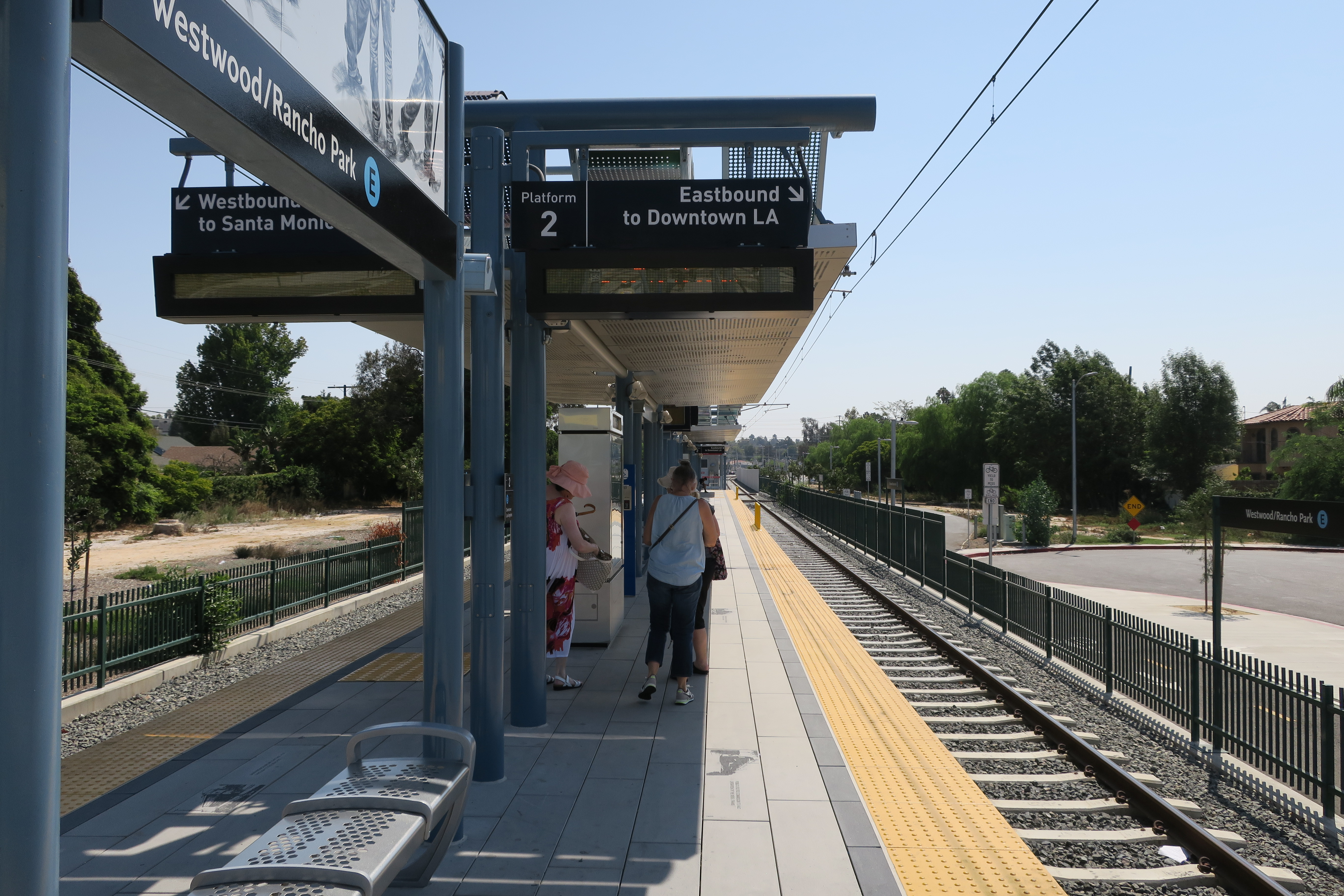 The Expo Line platform at the Westwood/Rancho Park station on the Los Angeles Metro Rail system, taken looking inbound.